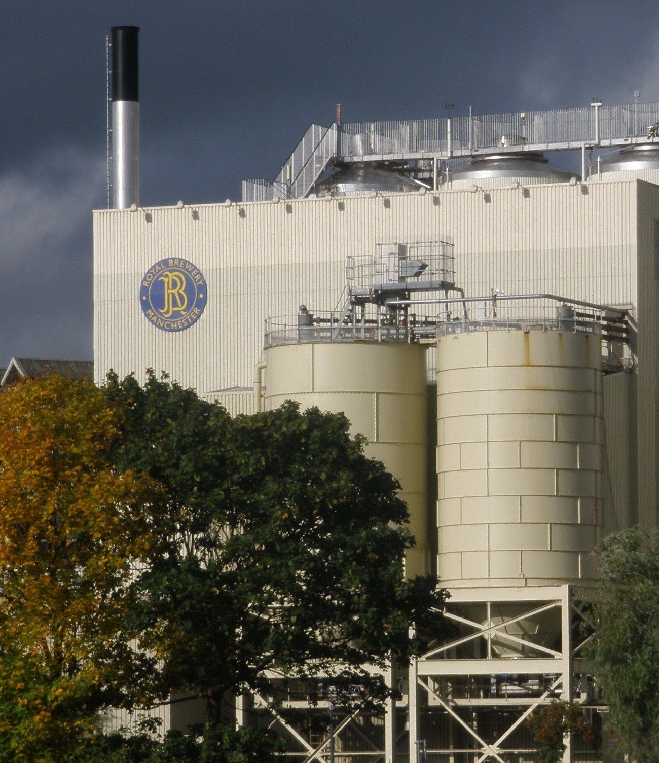 Royal Brewery on the edge of Moss Side in Manchester